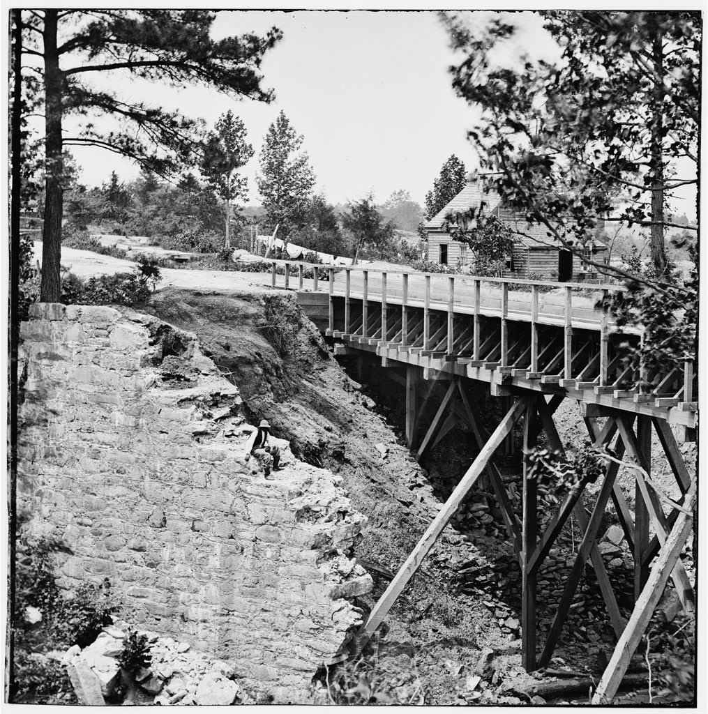 Canal Aqueduct - Petersburg 1865 During the Siege of Petersburg, in the American Civil War, there were not enough soldiers to block Union advancement in all places. The C.S.A dammed Rohoic Creek with a large dam that would be difficult to cross. The dam failed and washed away the 1826 aqueduct and the Southside Railroad. The Confederates rebuilt a Wooden Aqueduct for the Canal.